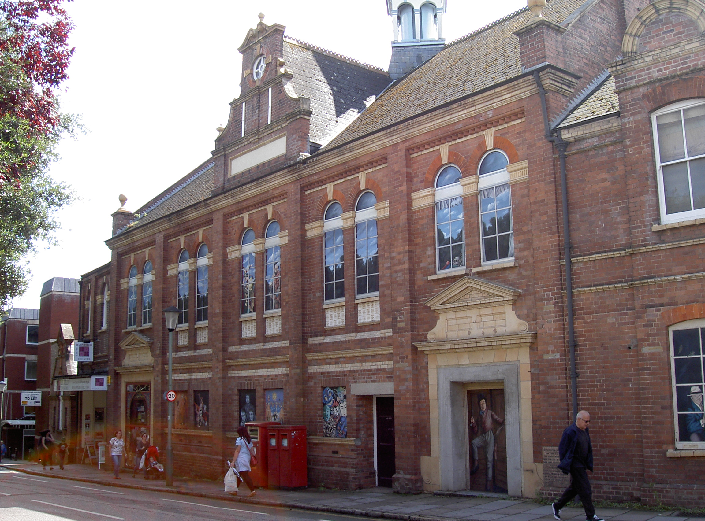 Barnfield Theatre. Exeter's lesser-known venue was built in the 1890s and was home to the Exeter Literacy Society. In 1972 a raked auditorium was constructed to allow various performances and conferences.